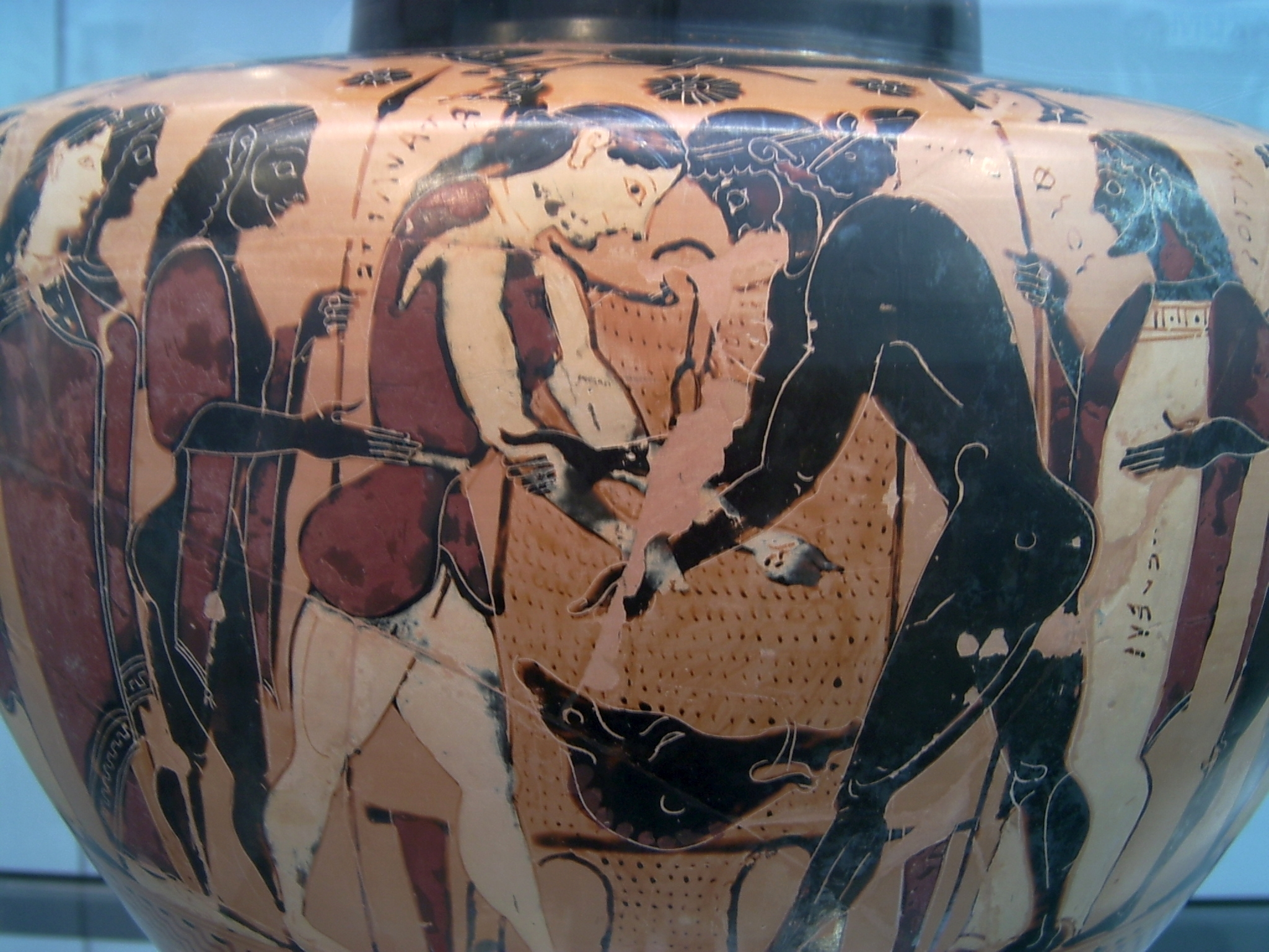 Chalcidian black-figured hydria. Side A: wrestling of Peleus and Atalanta for the funerary games of king Pelias. In background, the prize of the duel: the skin and the head of the Calydonian boar. Side B: Zeus darting its lightning on Typhon. Names inscriptions are written in the alphabet of Chalcis in Euboea. Side A